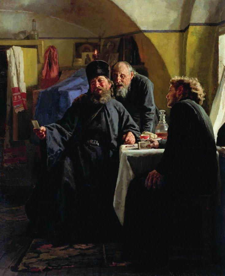 Nikolai Nevrev (1830-1904) Monks